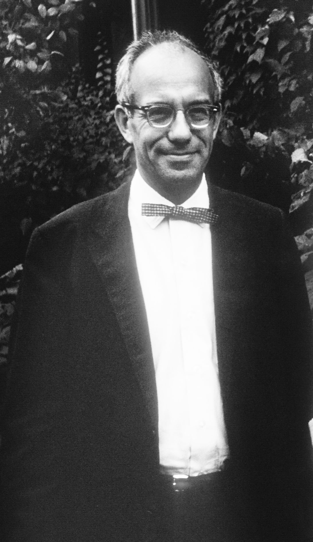 photo (celluloid transparency) of Rolla M. Tryon Jr from Tryon archives, University of Vermont